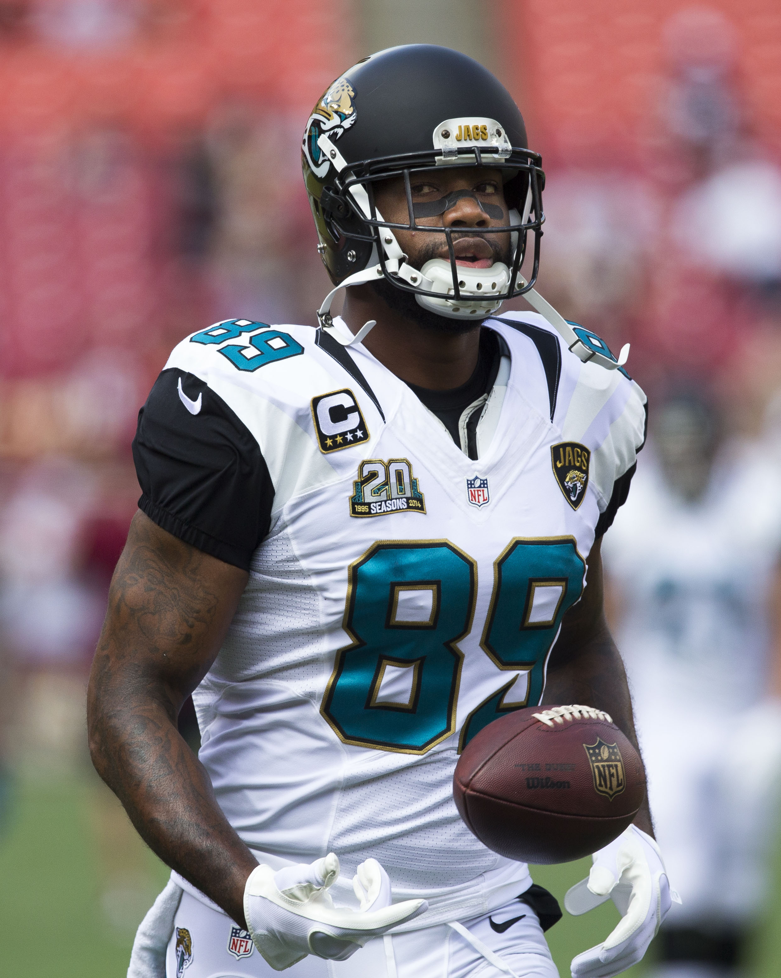 Jaguars at Redskins 9/14/14